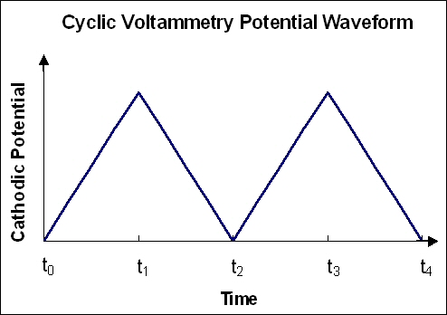 Authored and constructed by Timothy M. Paschkewitz, self.